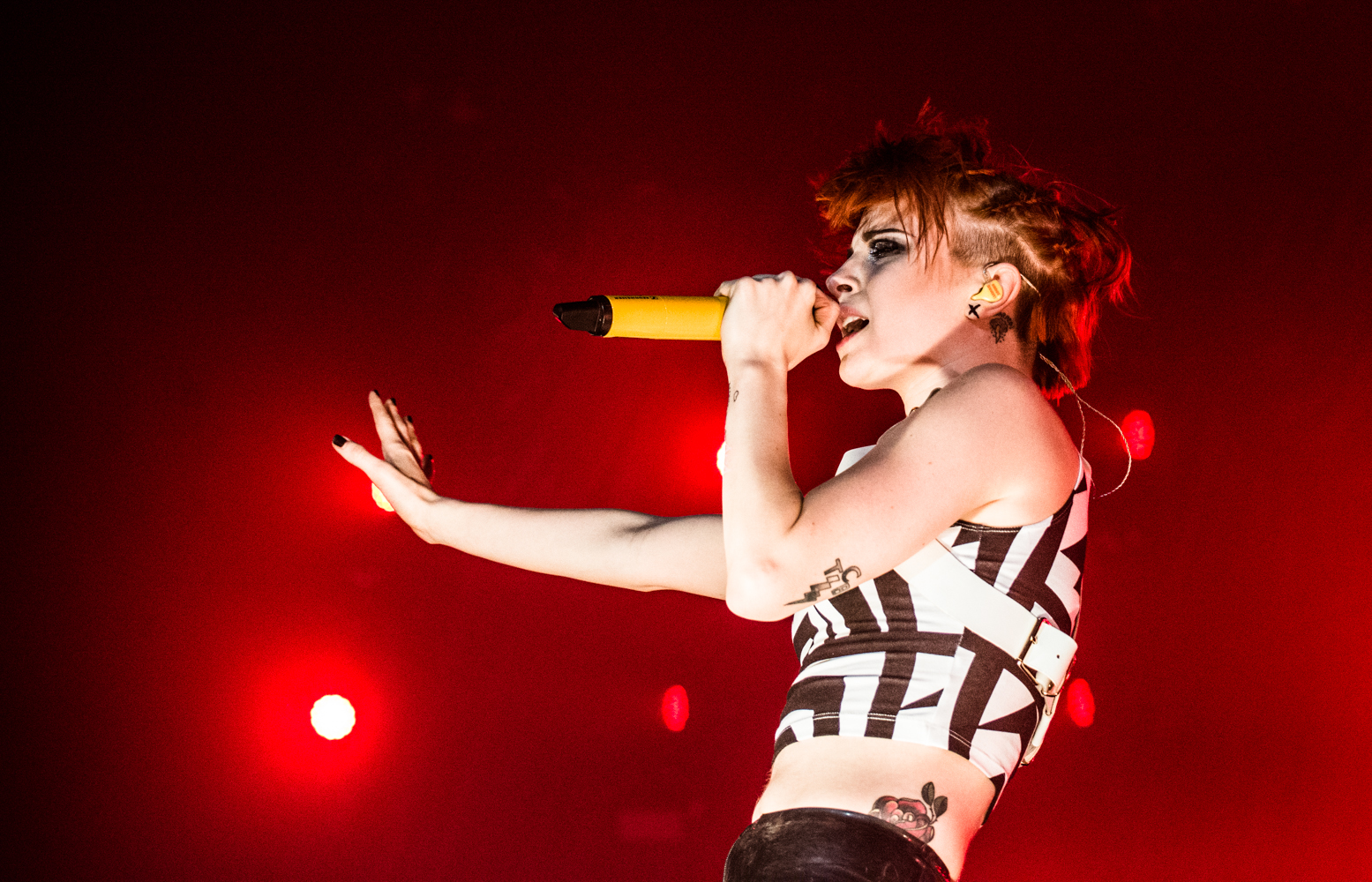 Singer Hayley Williams live in concert with Paramore at the Wembley Arena, London